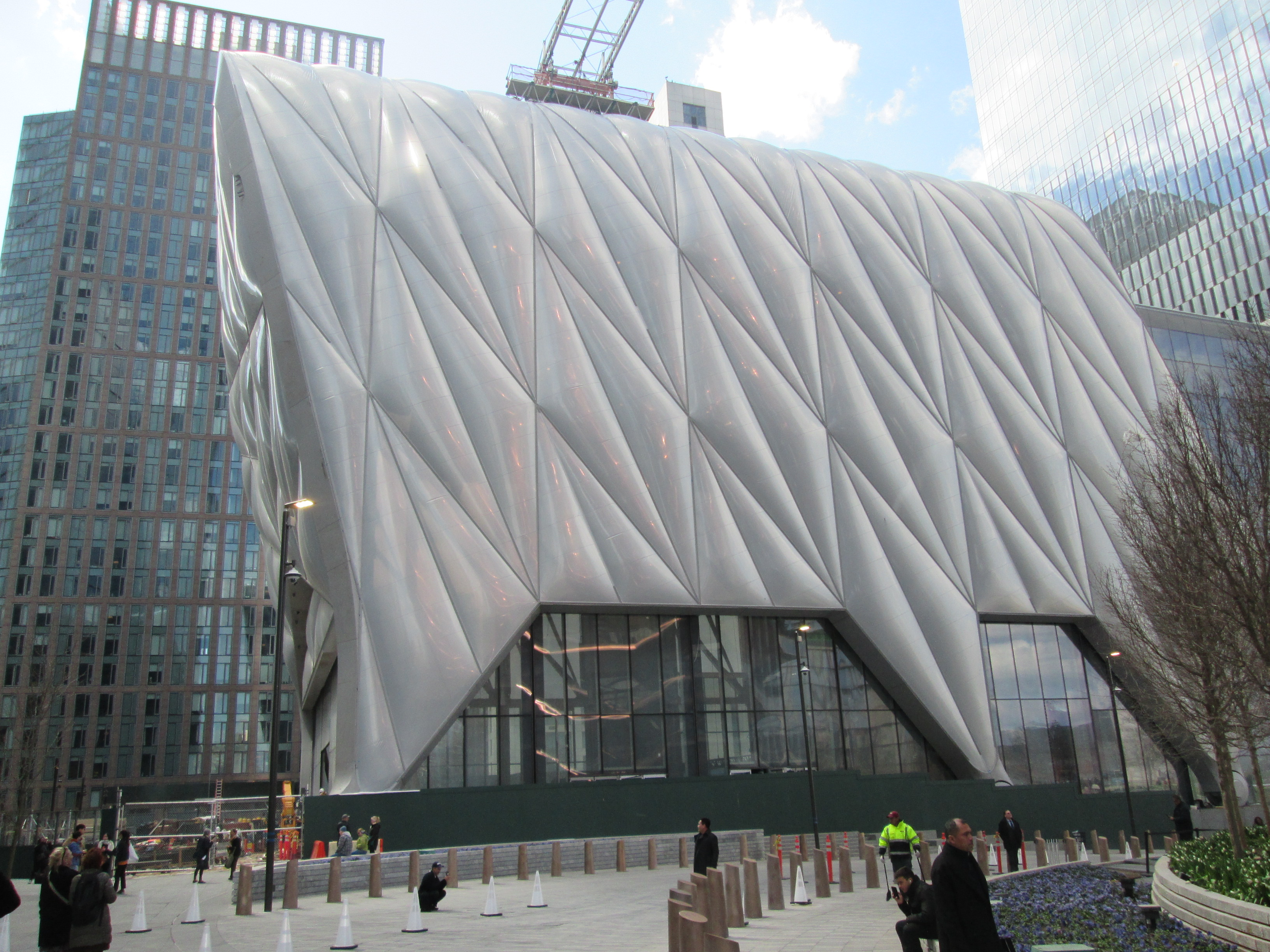 The Hudson Yards development in New York City in March 2019; looking at Culture Shed from north